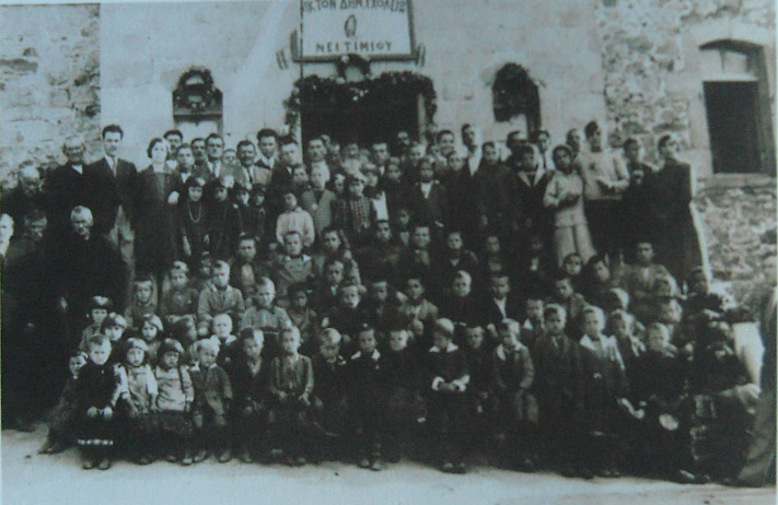 Greek school in Nostimo / Nestime.